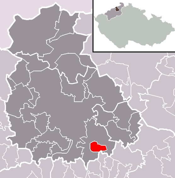 Location of Tašov municipality within Ústí nad Labem District and administrative area of Ústí nad Labem as a Municipality with Extended Competence.